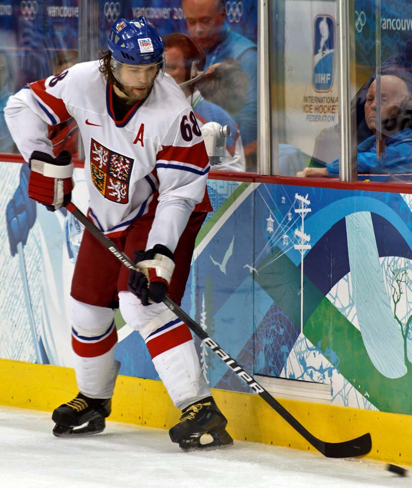 Jaromir Jagr of the Czech Republic This file has been extracted from another file: JaromirJagr2010WinterOlympicspuck.jpg